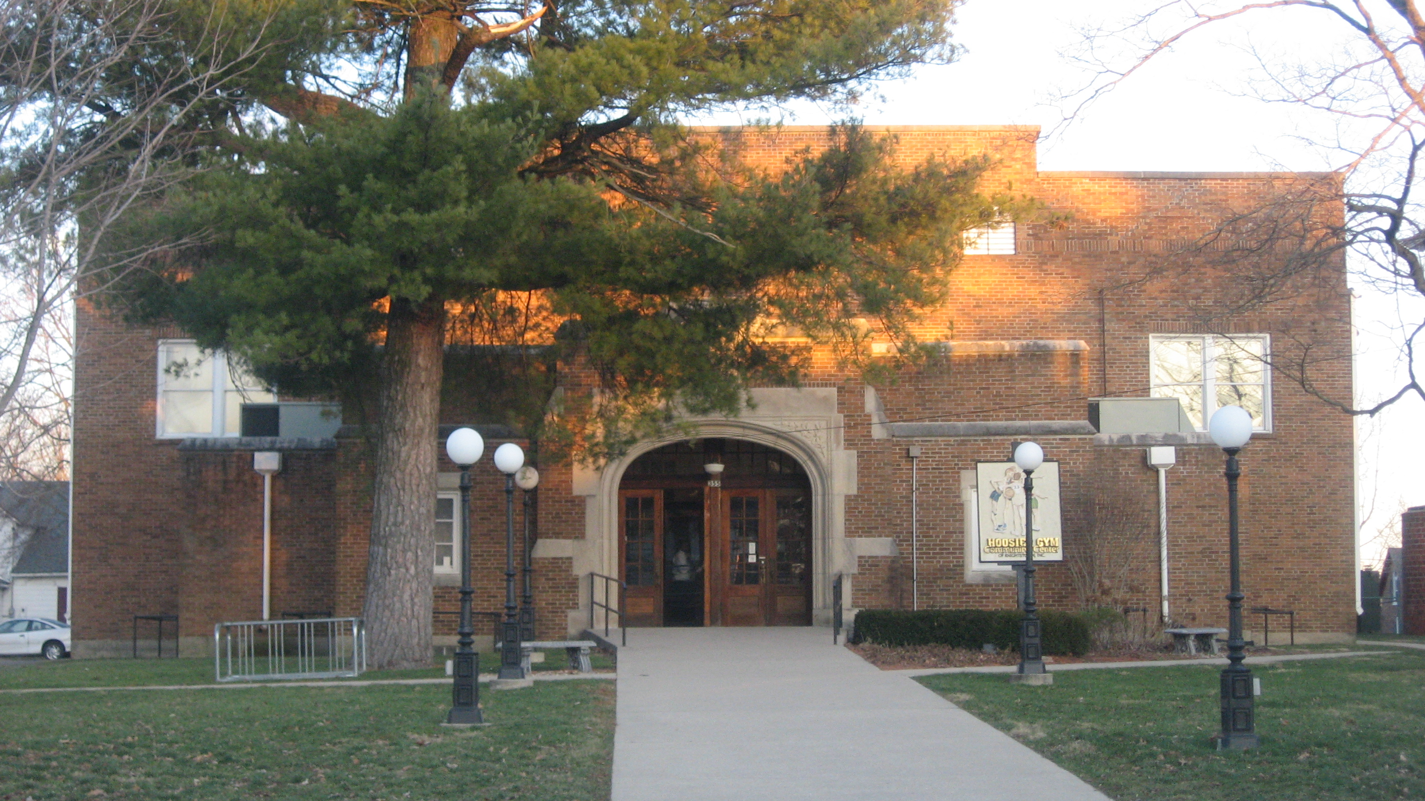 Front of the old gymnasium in Knightstown, Indiana, United States, located at 355 N. Washington Street. Nicknamed the "Hoosier Gym" because it was used for the filming of the movie Hoosiers, it was built in 1922. It is part of the Knightstown Historic District, a historic district that is listed on the National Register of Historic Places.